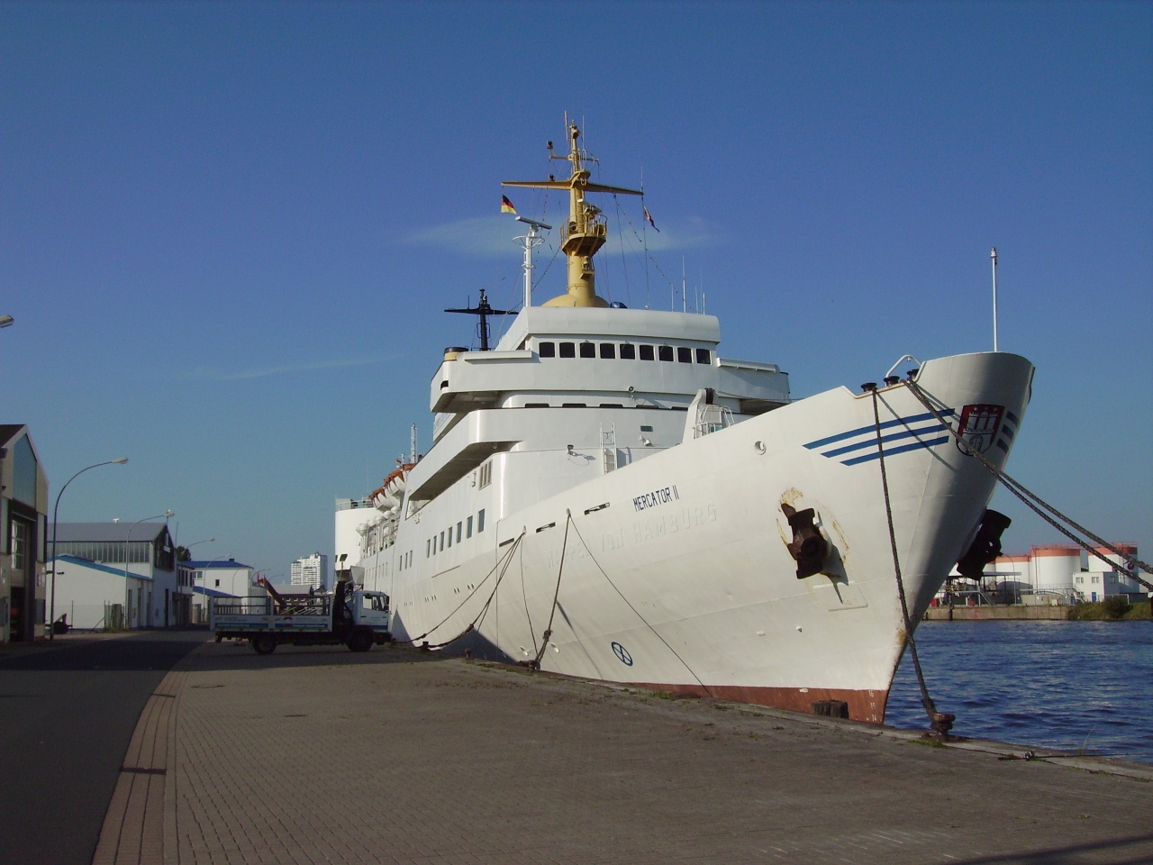 The former passenger ship "Wappen von Hamburg", now "Mercator II", in Bremerhaven where it is being reconstructed